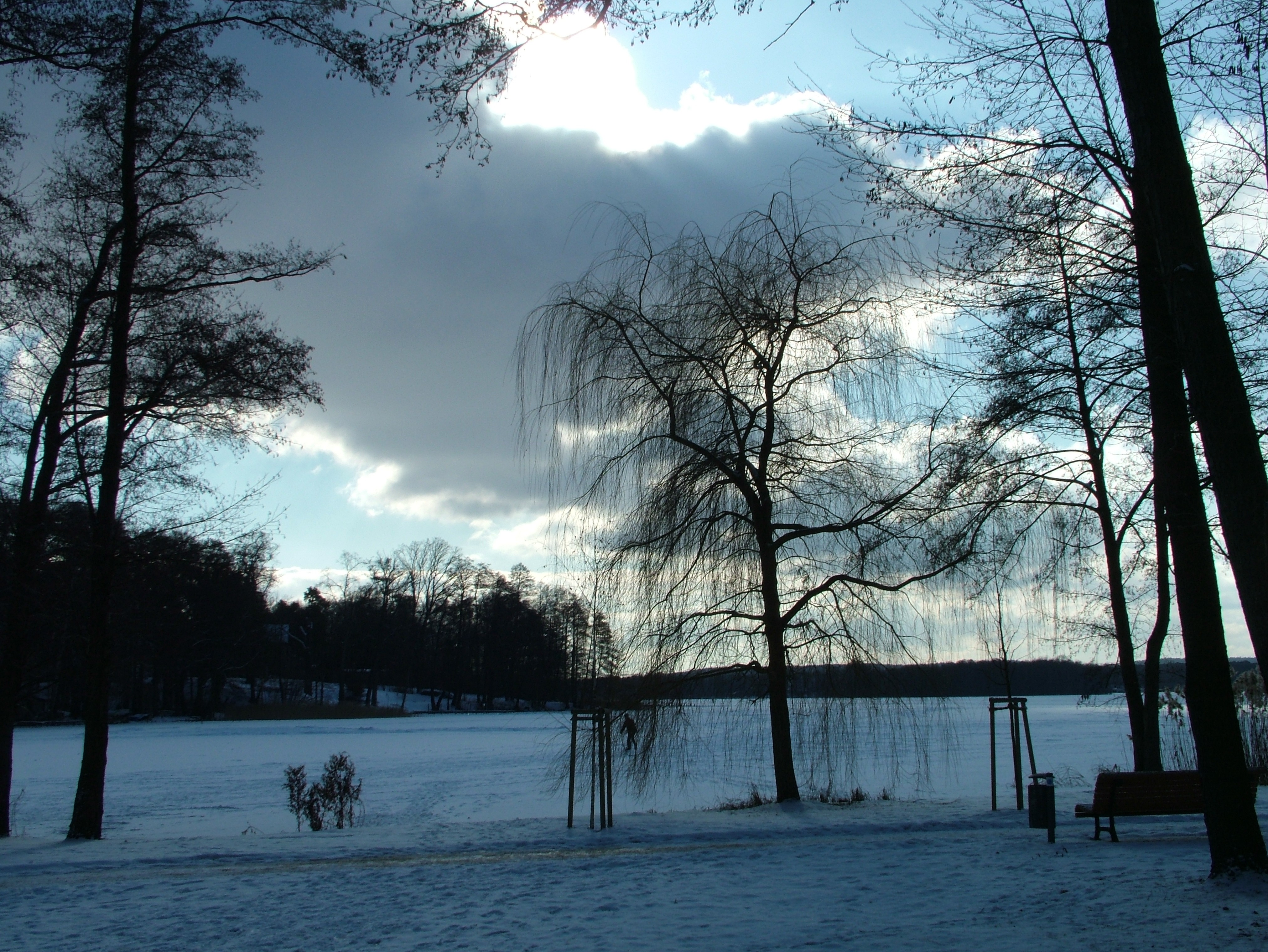 The Scharmützelsee / Germany in winter